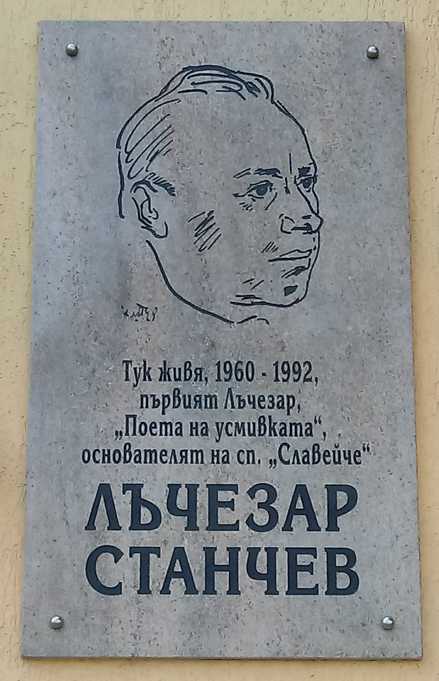 Luchezar Stanchev memorial plaque, 8 Tsarigradsko Shose Blvd., Sofia